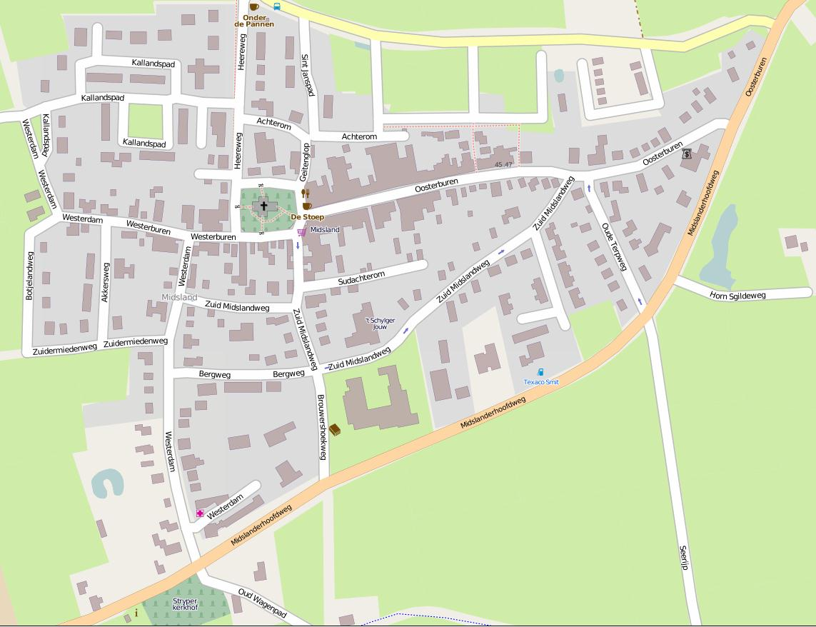 Midsland Terschelling (OpenStreetMap)